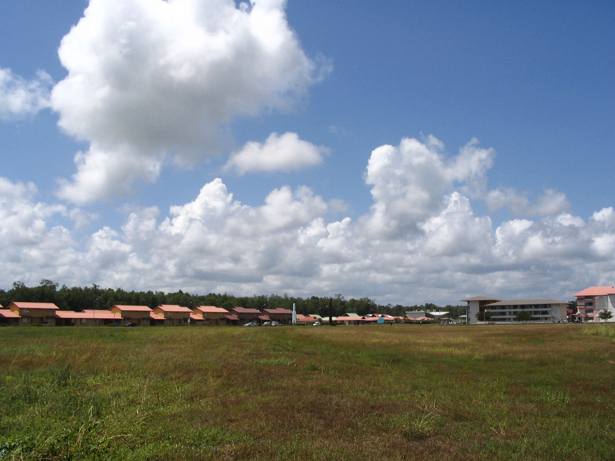 Field in front of the library of Kourou, French Guiana.